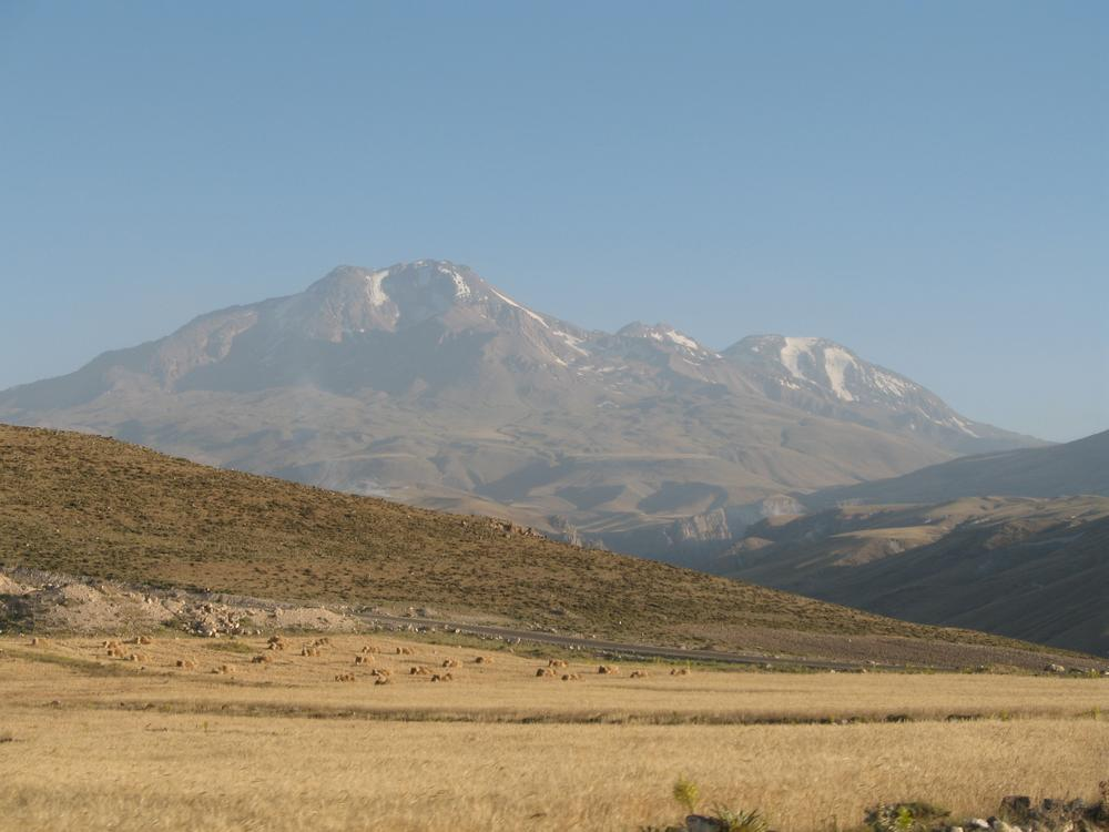 Mount Sabalan. Author:Stanislav Zolnaj